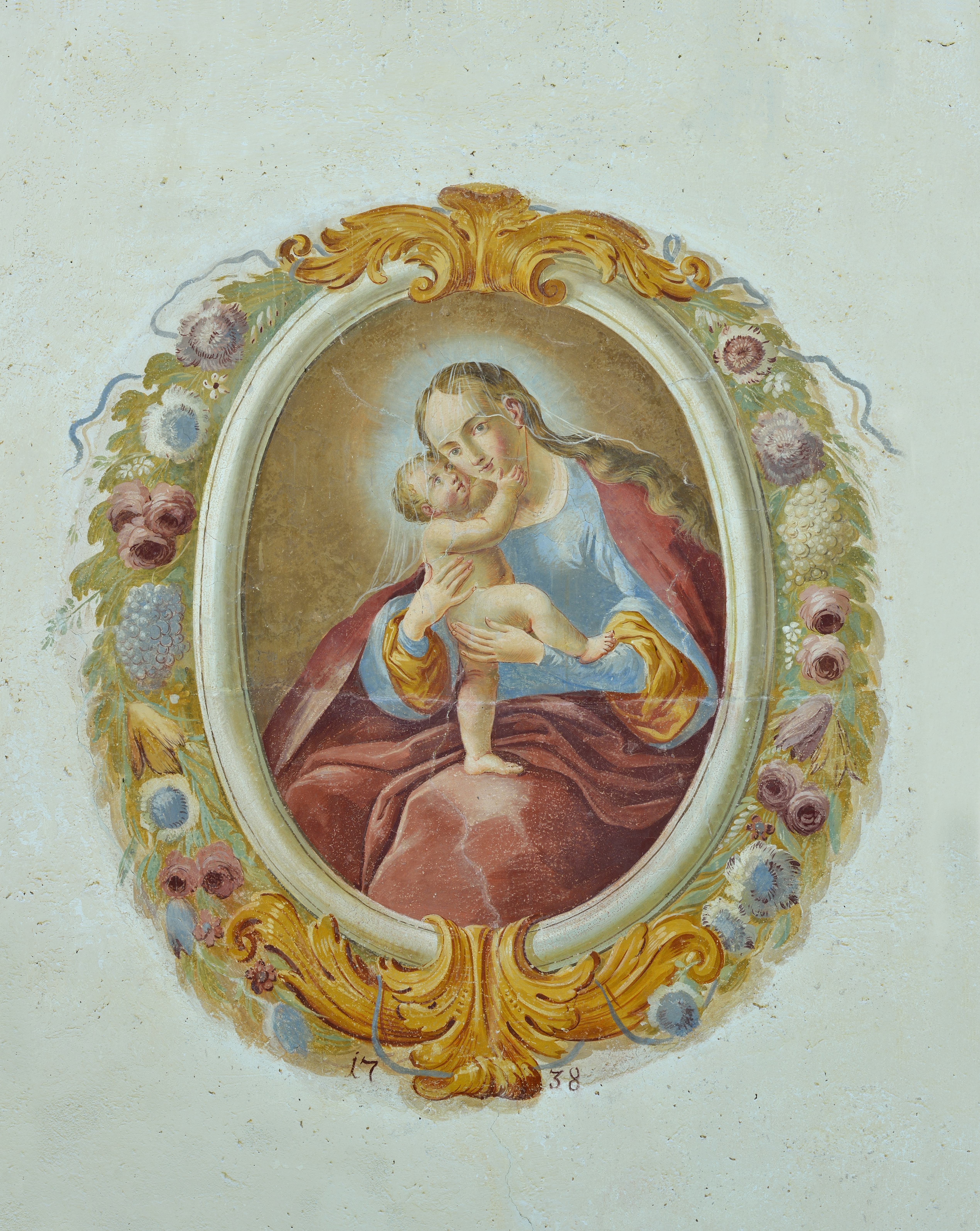 Ancient rectory in La Val